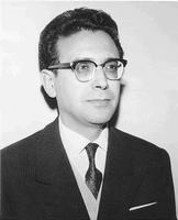 Former Tunisian minister Ahmed Mestiri